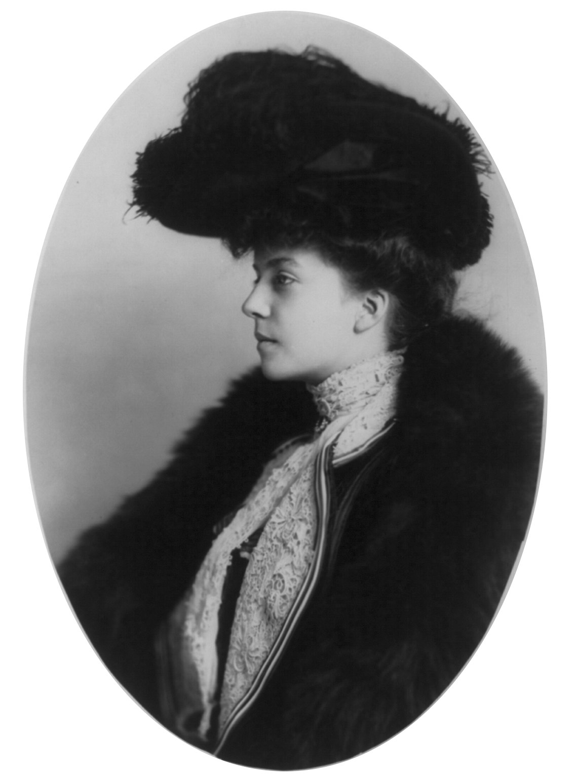 Alice Roosevelt, daughter of US president Theodore Roosevelt taken in 1902 by Frances Benjamin Johnston. Alice, with her beauty, wit and devil-may-care attitude was the center of much media attention in the early days of the "TR" Roosevelt Administration Alice Roosevelt, taken about 1902. A striking beauty, her outspokenness and antics won the hearts of the America people who nicknamed her "Princess Alice"